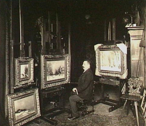 Portrait of the Dutch painter Louis Apol (1850-1936)